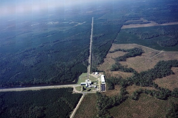 LIGO operates two detectors located 3000 km (1800 miles) apart: One in eastern Washington near Hanford, and the other near Livingston, Louisiana. This photo shows the Livingston detector.